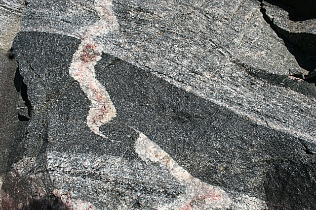 Gneiss, Amphibolite and Granite. This is a close-up of part of the rock face, showing the dark amphibolite of a Scourie dyke cutting the grey Badcallian gneiss, and both being cut by a granite vein which was subsequently deformed. The whole field of view is about 200 mm high; unfortunately it was reachable only by an awkward scramble and there was nowhere I could place a coin to give a scale.